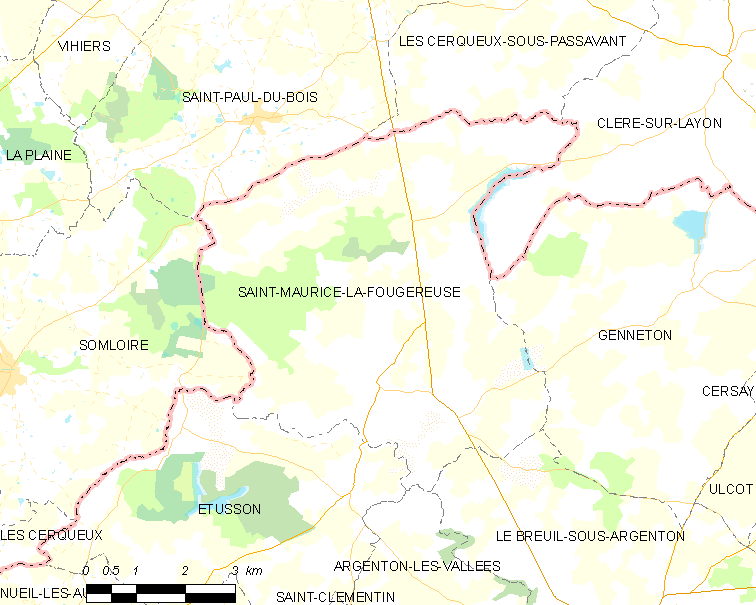 Map of French municipality Saint-Maurice-la-Fougereuse